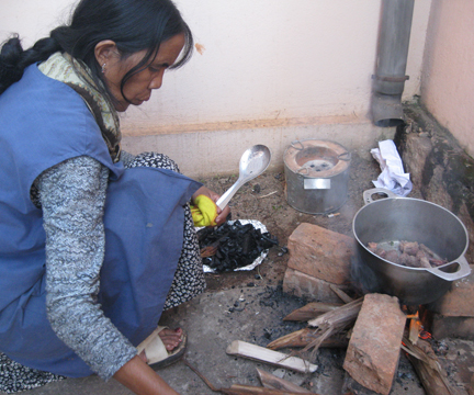 In Antananarivo, Madagascar, a PGI worker lights a traditional three stove fire. Here she is boiling meat as one of the steps of the Controlled Cooking Test. Stoves like these are common here in Madagascar and contribute heavily to the depletion of the once-lush forests.